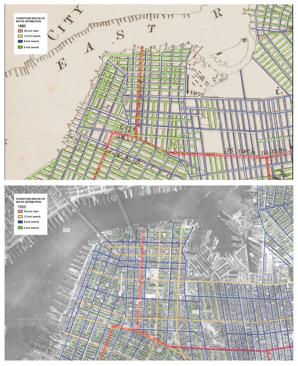 Brooklyn Water distribution on neighborhood in the year of 1880 and 1920